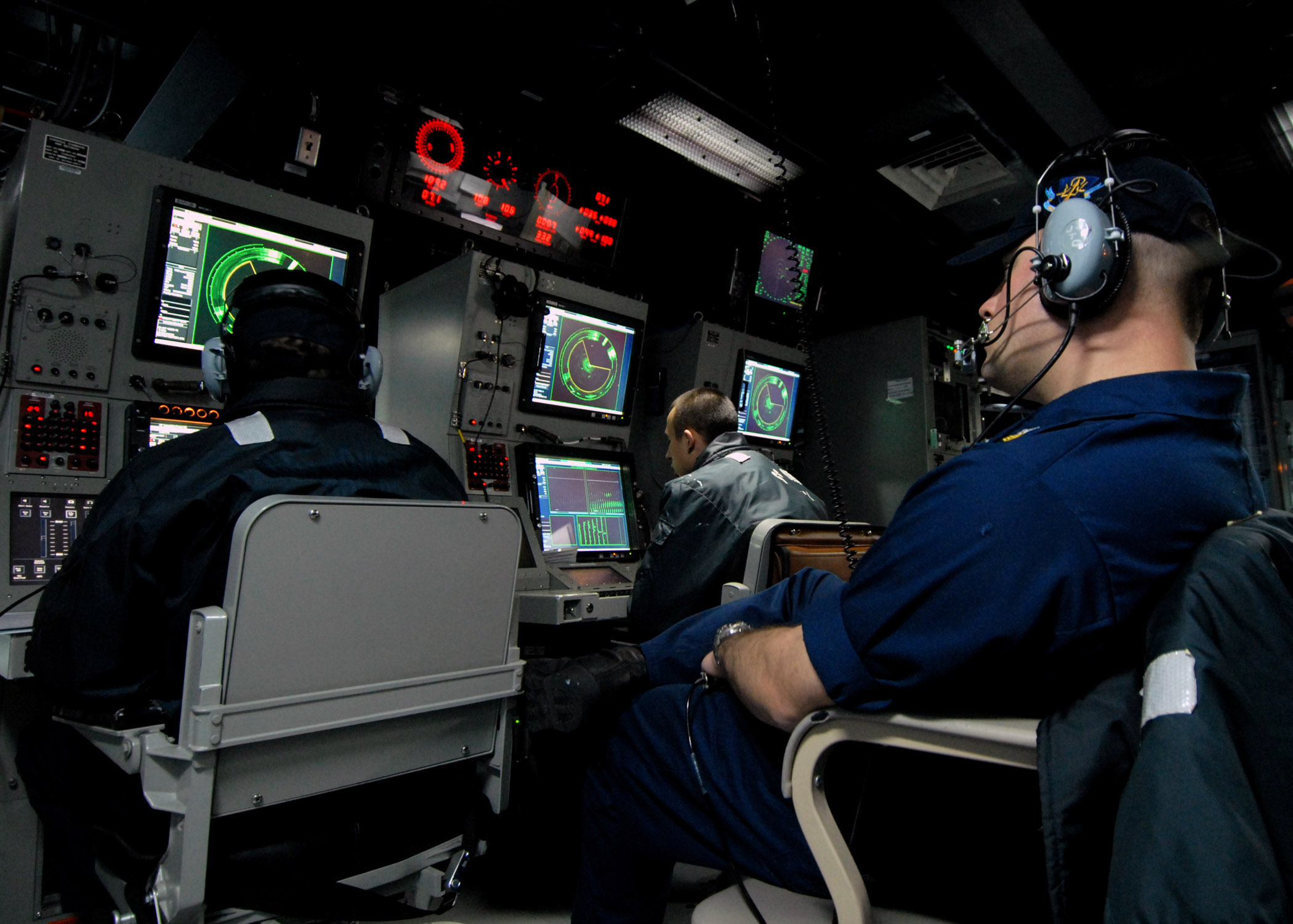 080126-N-7981E-830 PACIFIC OCEAN (Jan. 26, 2008) Sonar Technician (Surface) 1st Class Mark Osborne supervises Sonar Technician (Surface) 2nd Class Randy Loewen, left, and Sonar Technician (Surface) 3rd Class Roland Stout, right, as they monitor contacts on an AN/SQQ-89V15 Surface Anti Submarine Combat System, aboard the guided missile destroyer USS Momsen (DDG 92). Ships and aircraft assigned to Carrier Strike Group (CSG) 9 are underway off the coast of Southern California participating in a Joint Task Force Exercise.